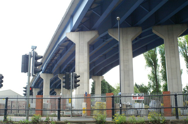 St Philip's Causeway. The flyover crossing the Feeder Canal and Feeder Road, looking SE from the canal.